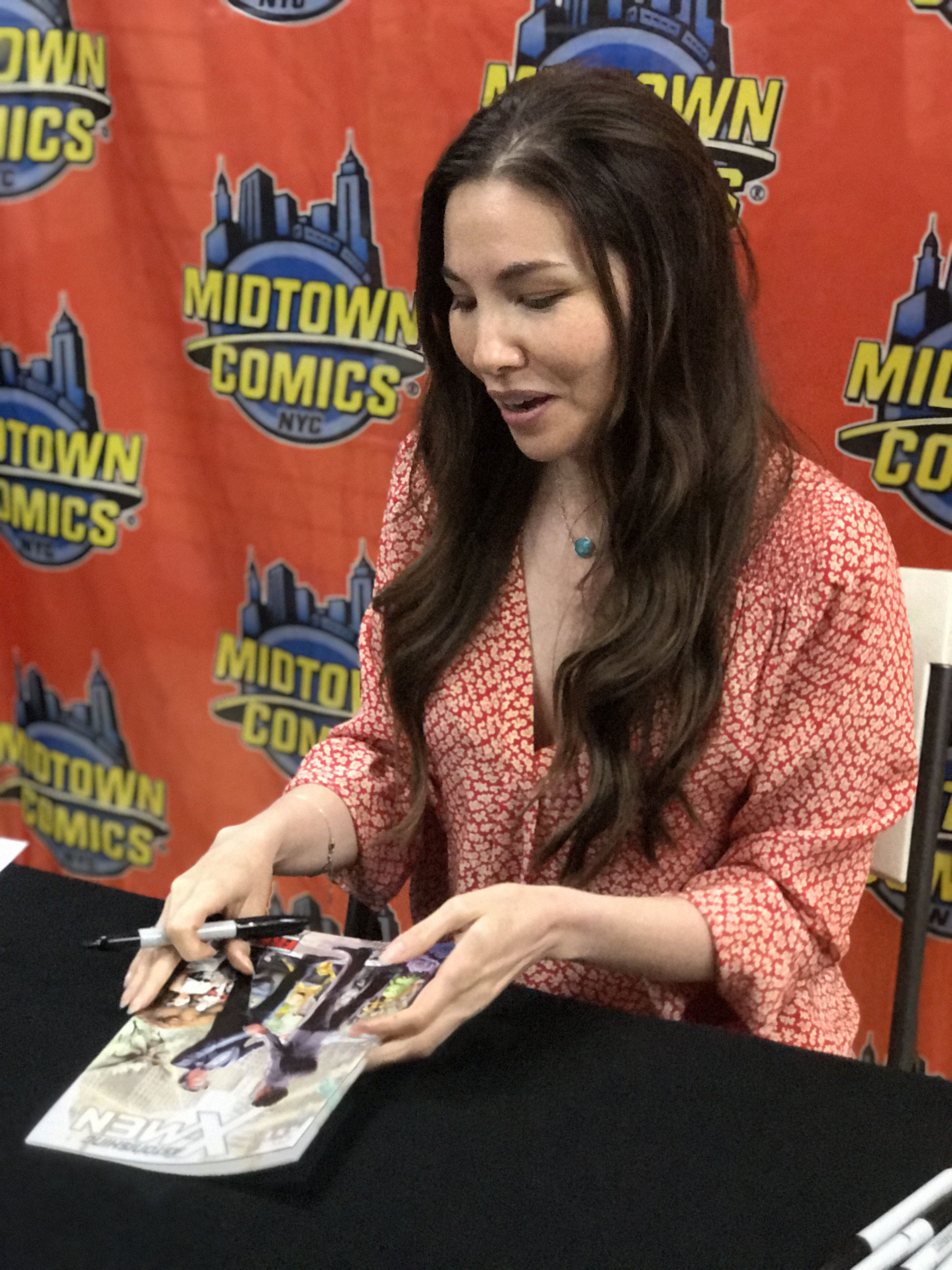 Horror/fantasy novelist and comic book writer Marjorie Liu at a May 30, 2019 signing for Monstress #22 at Midtown Comics Downtown in Manhattan. In the photo above, Liu is signing a copy of Astonishing X-Men #51 (June 2012), which features the wedding of superhero Northstar and Kyle Jinadu, the first depiction of a same-sex wedding in mainstream comics. This photo was created by Luigi Novi. It is not in the public domain, and use of this file outside of the licensing terms is a copyright violation.